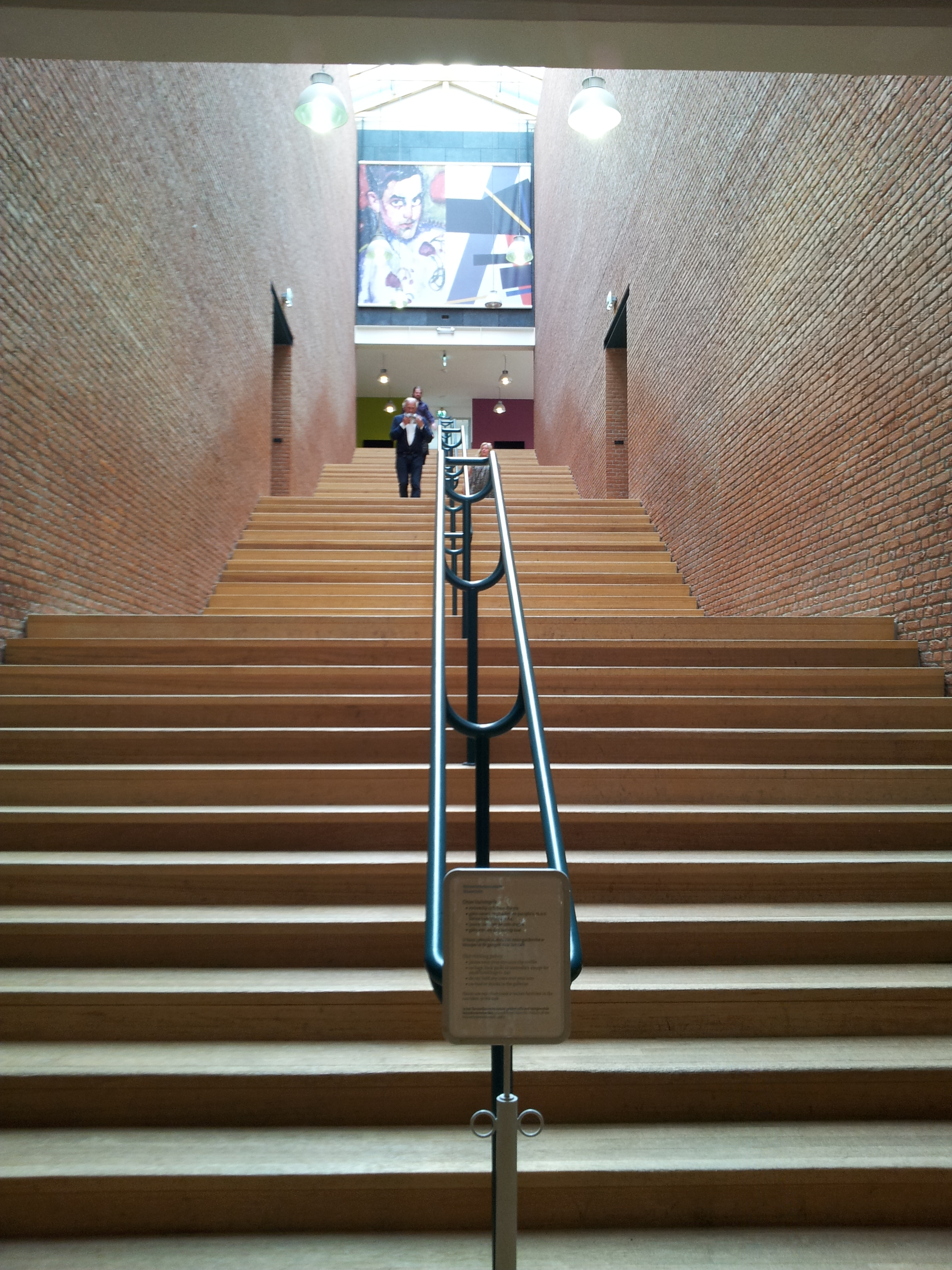 Maastricht, the Netherlands. View of central staircase in the Bonnefantenmuseum designed by Aldo Rossi.